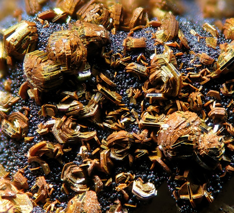 Lepidocrocite Locality: Alto das Quelhas do Gestoso Mines, Gestoso, Manhouce, São Pedro do Sul, Viseu District, Portugal Picture width 1.5 mm. Collection and photograph Christian Rewitzer Analysed specimen